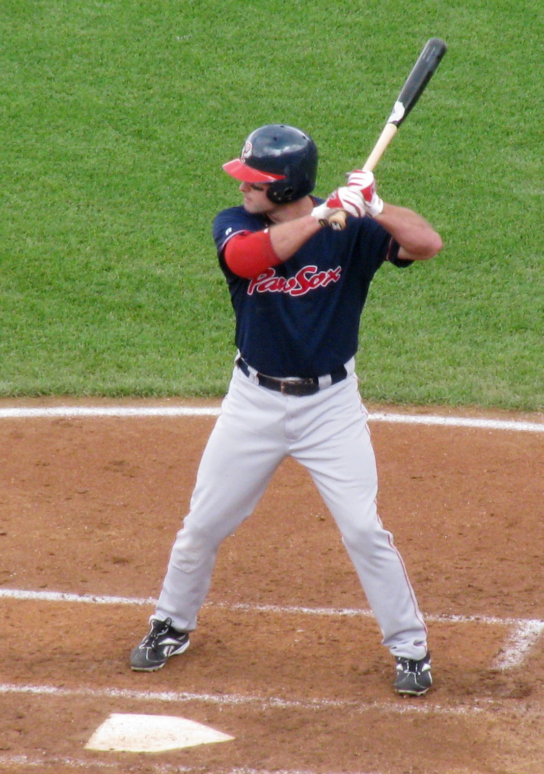 Chris Carter batting for the Pawtucket Red Sox against the Syracuse Chiefs, 7 September 2009.